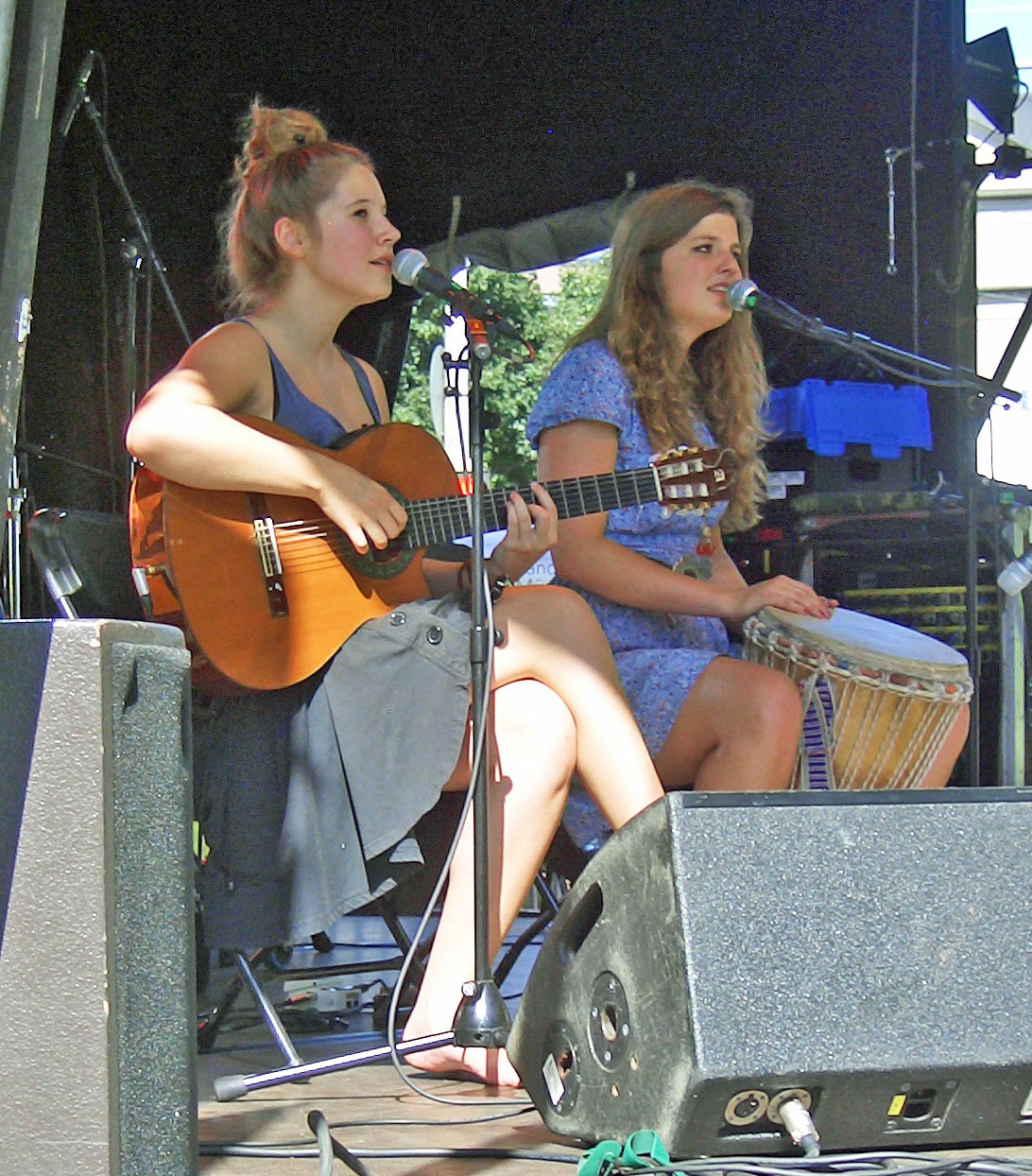 Tuó in open air concert at Isarinselfest, Munich, Sep. 3rd, 2011